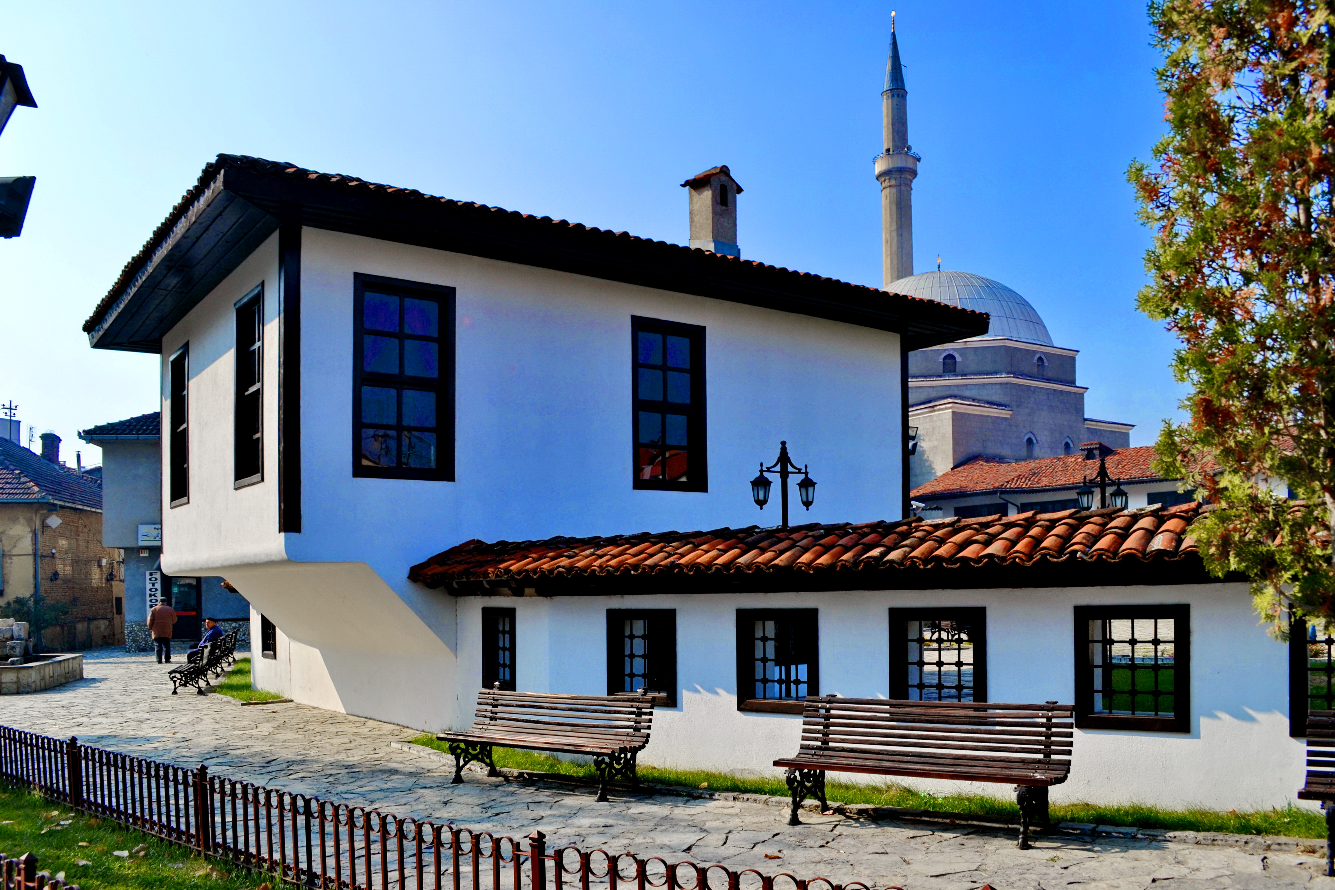 The Prizren Ligue